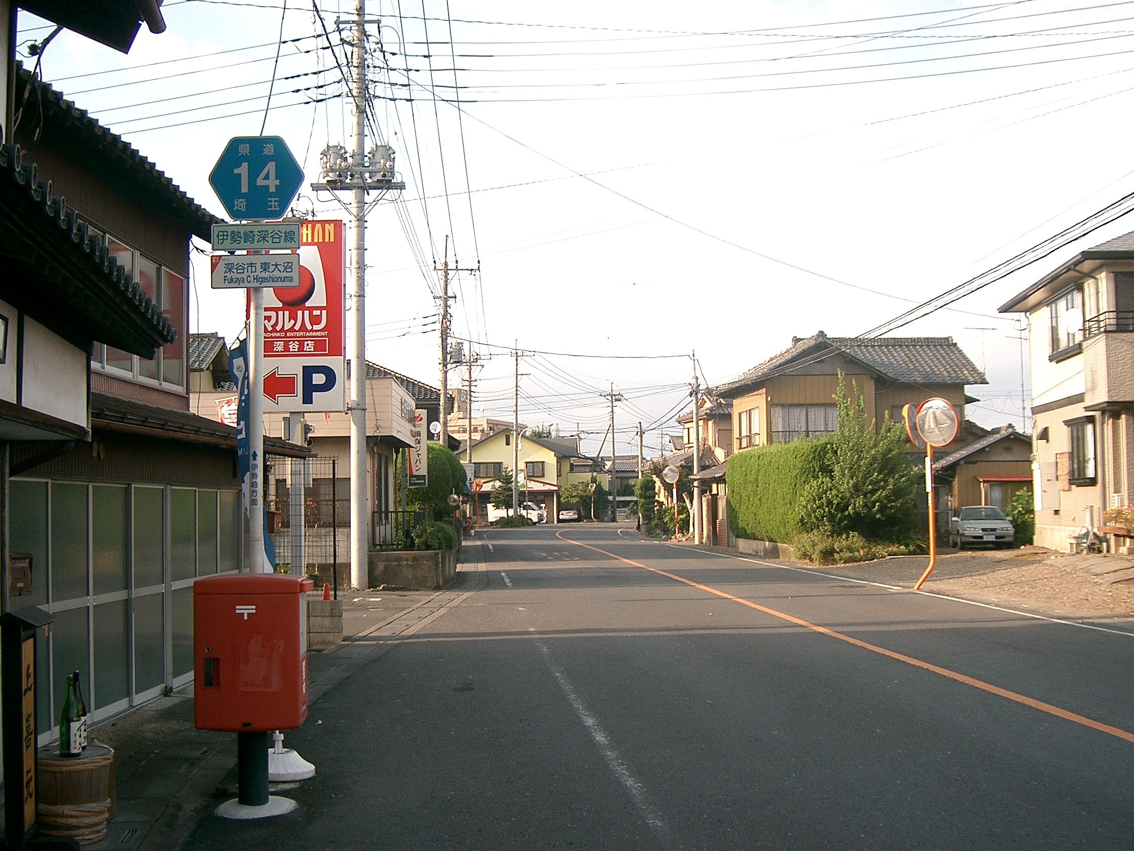 Saitama prefectural road 14 Isesaki-Fukaya line. Looking north from Higashi Onuma, Fukaya city.